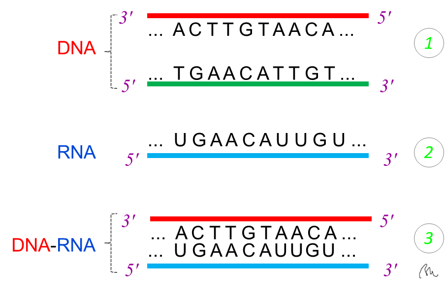 Cross a single strand of DNA molecule with RNA according to the complementary principle (Complementarity in molecular biology).